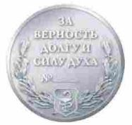 Medal of Luke of the Crimea, reverse. Russian Federation.